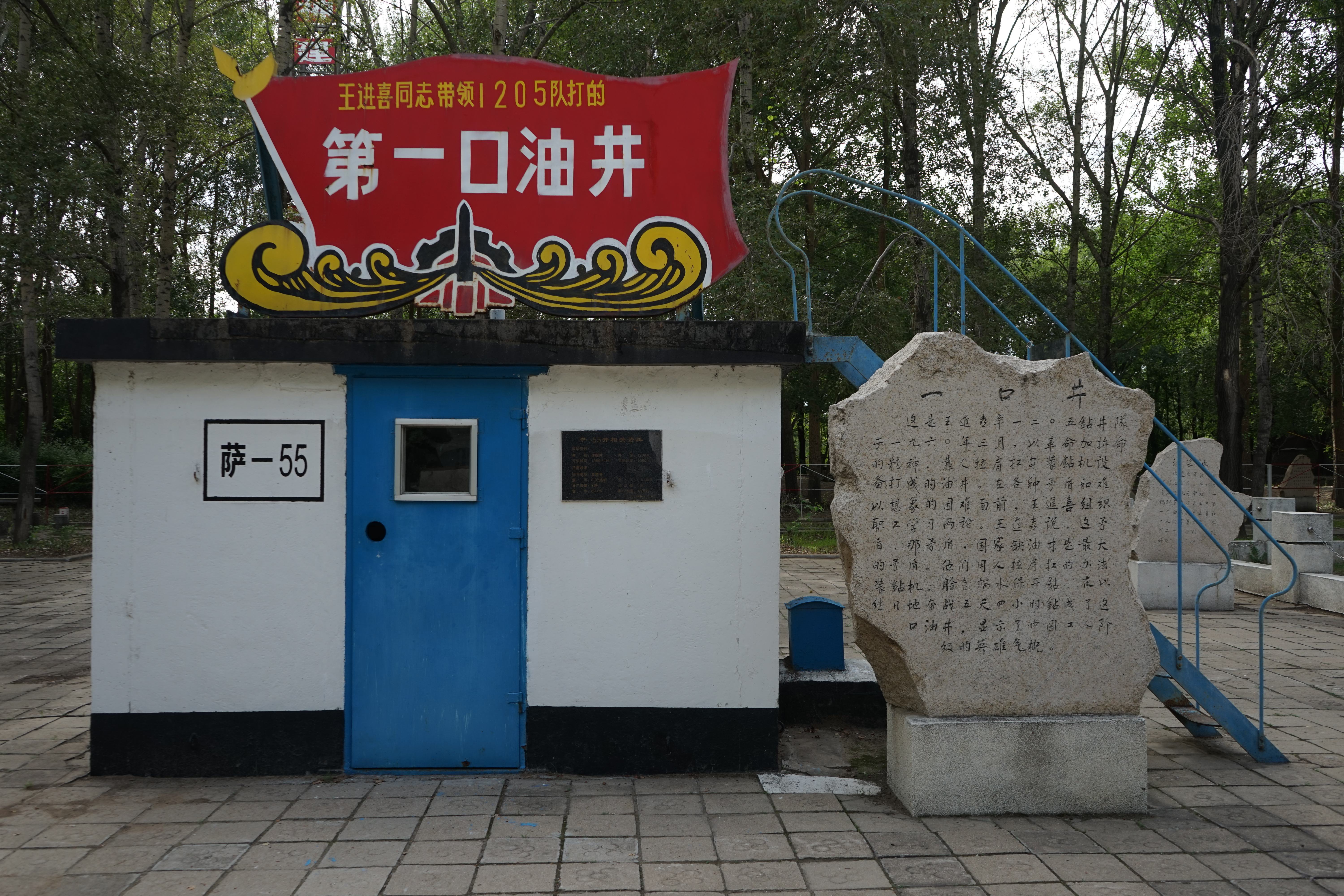 "Iron Man" Wang Jinxi led No.1205 drilling crew completed the drilling of this oil well ("Well Sa-55") in five days in March 1960.